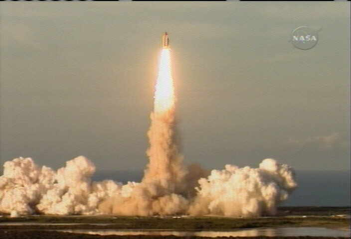 Launch of Space Shuttle Atlantis on STS-117